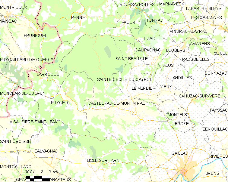 Map of French municipality Castelnau-de-Montmiral